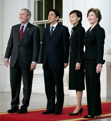 President George W. Bush and Mrs. Laura Bush stand for press photographs with Japanese Prime Minister Shinzo Abe and his wife Mrs. Akie Abe.